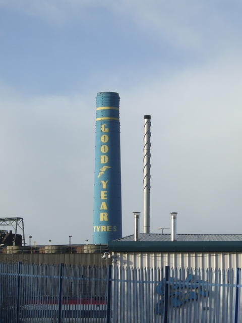 Goodyear Tyres The brick chimney at Goodyears is a prominent local landmark. This is taken from the rear of the site in Bushbury Lane.